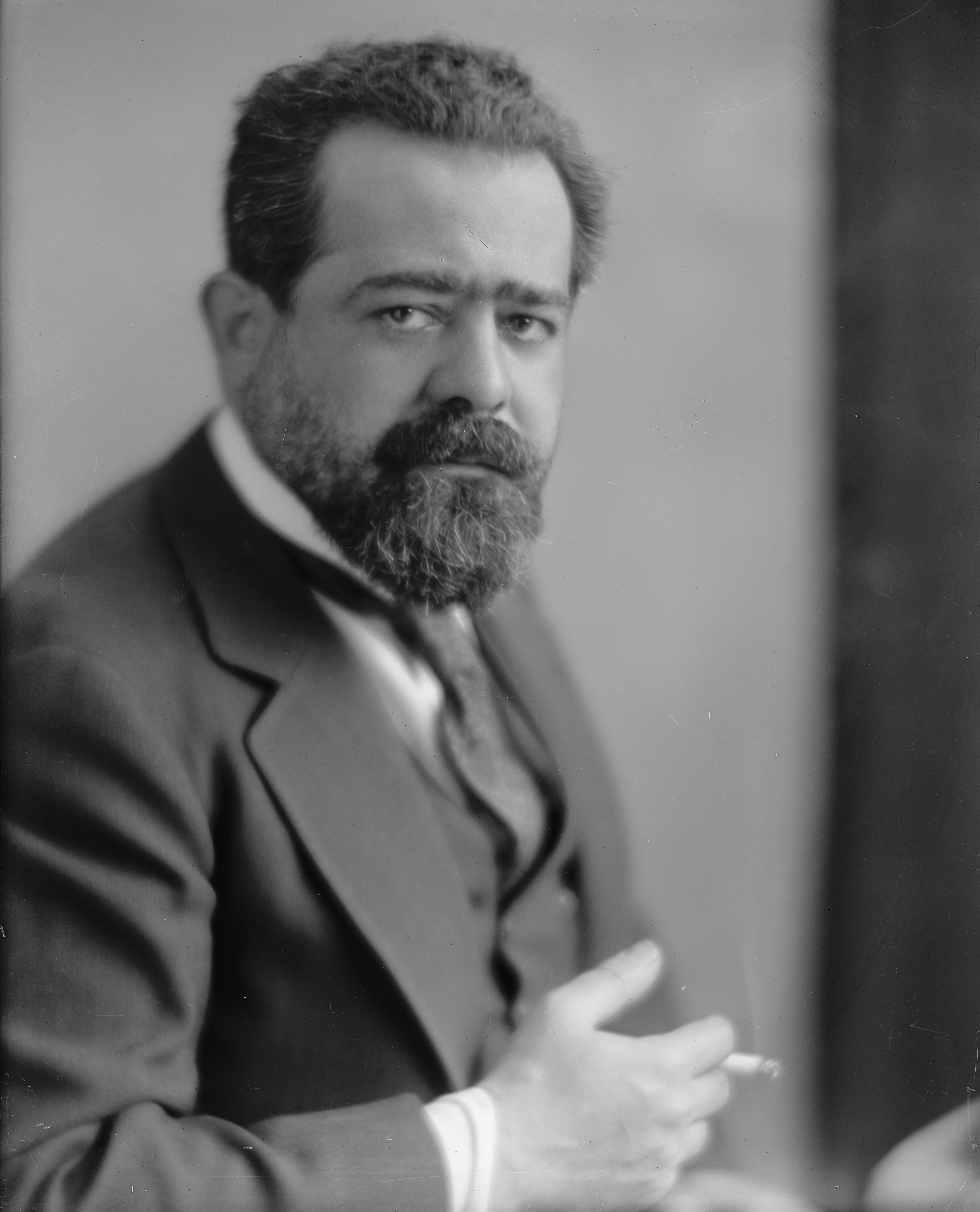 Title: DAVIDSON, JO. HONORABLE Abstract/medium: 1 negative : glass ; 8 x 10 in. or smaller